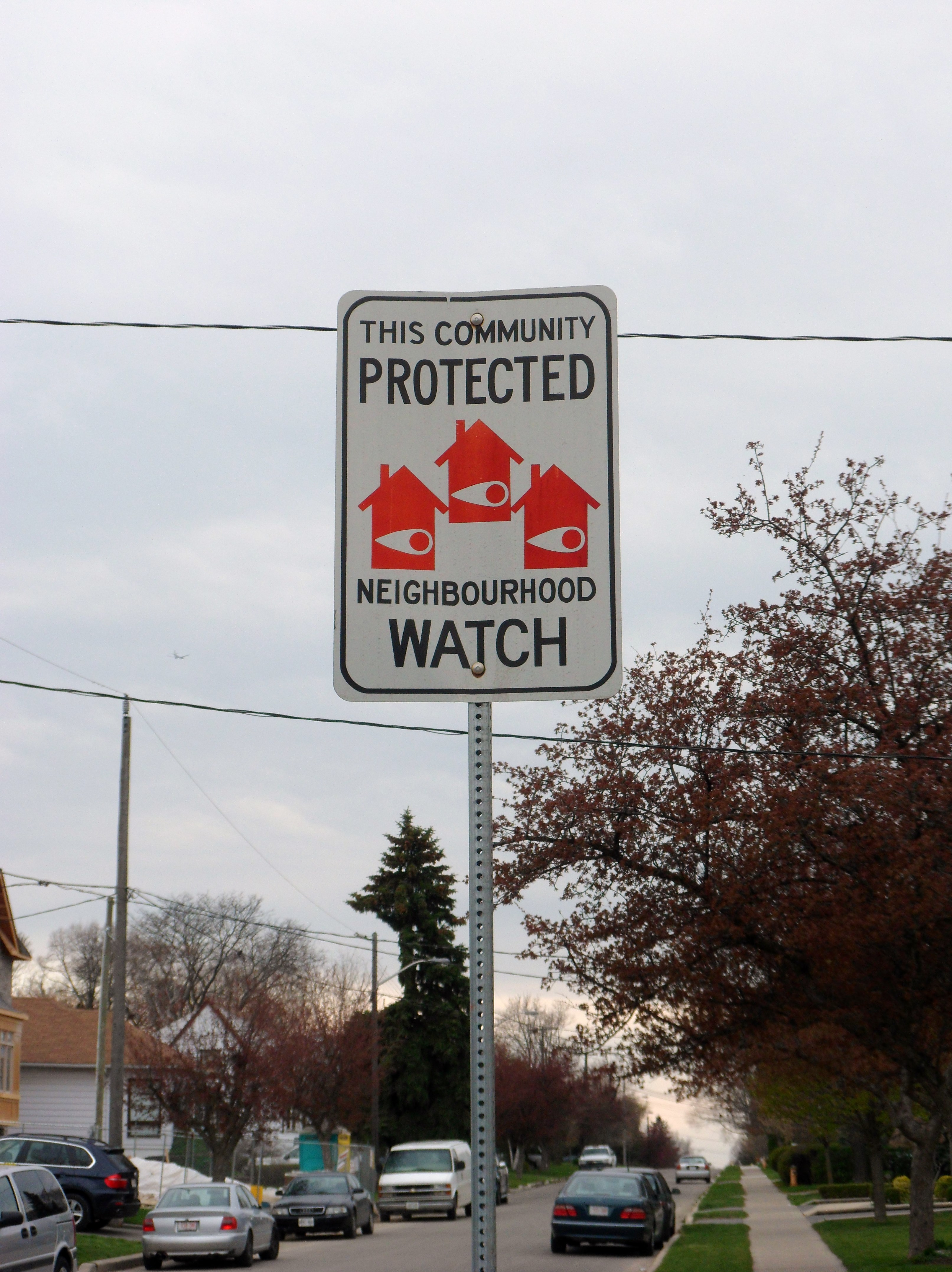 Neighbourhood watch road sign. Toronto.